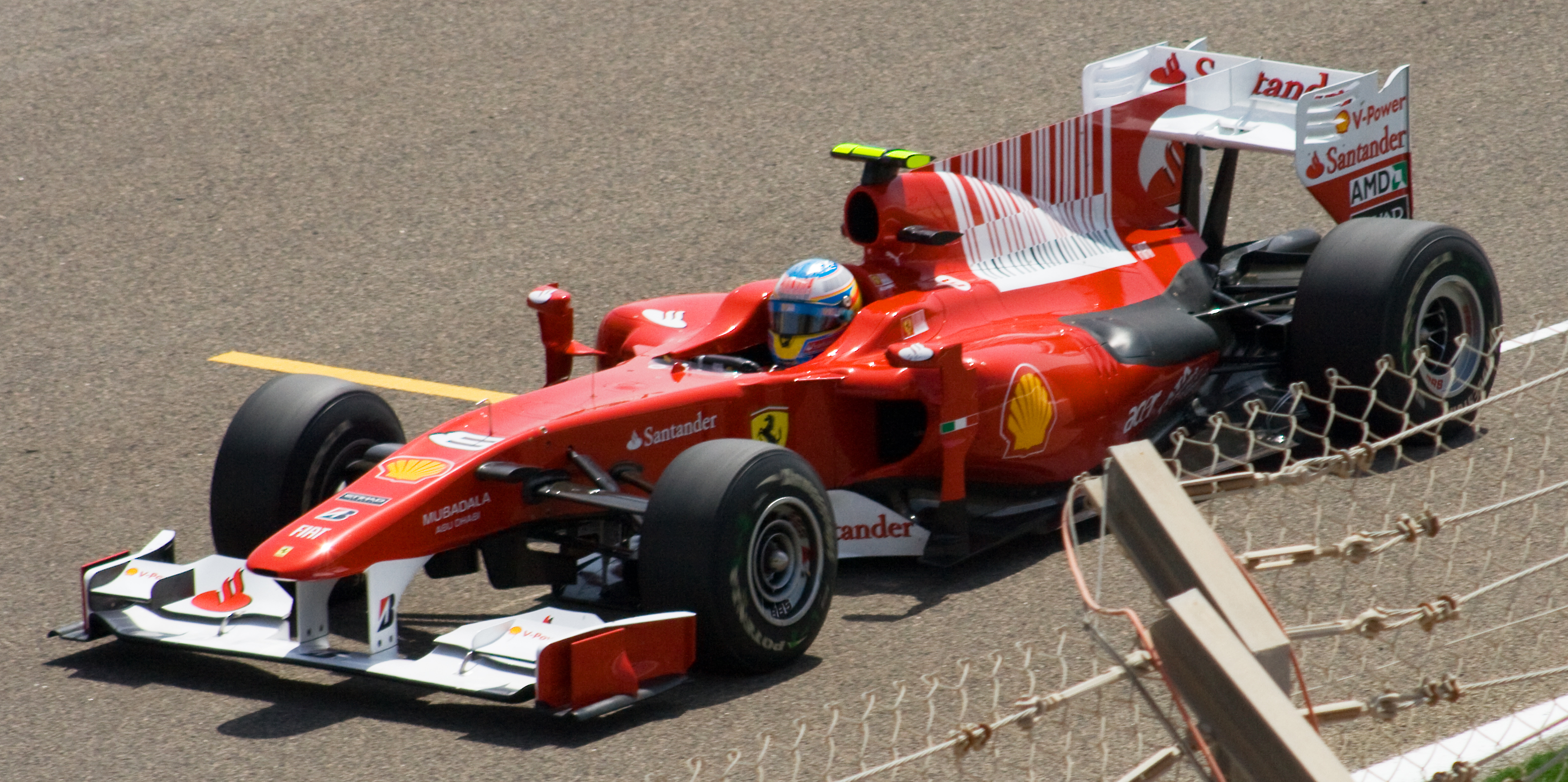 Fernando Alonso driving for Ferrari during a practice session in Bahrain.